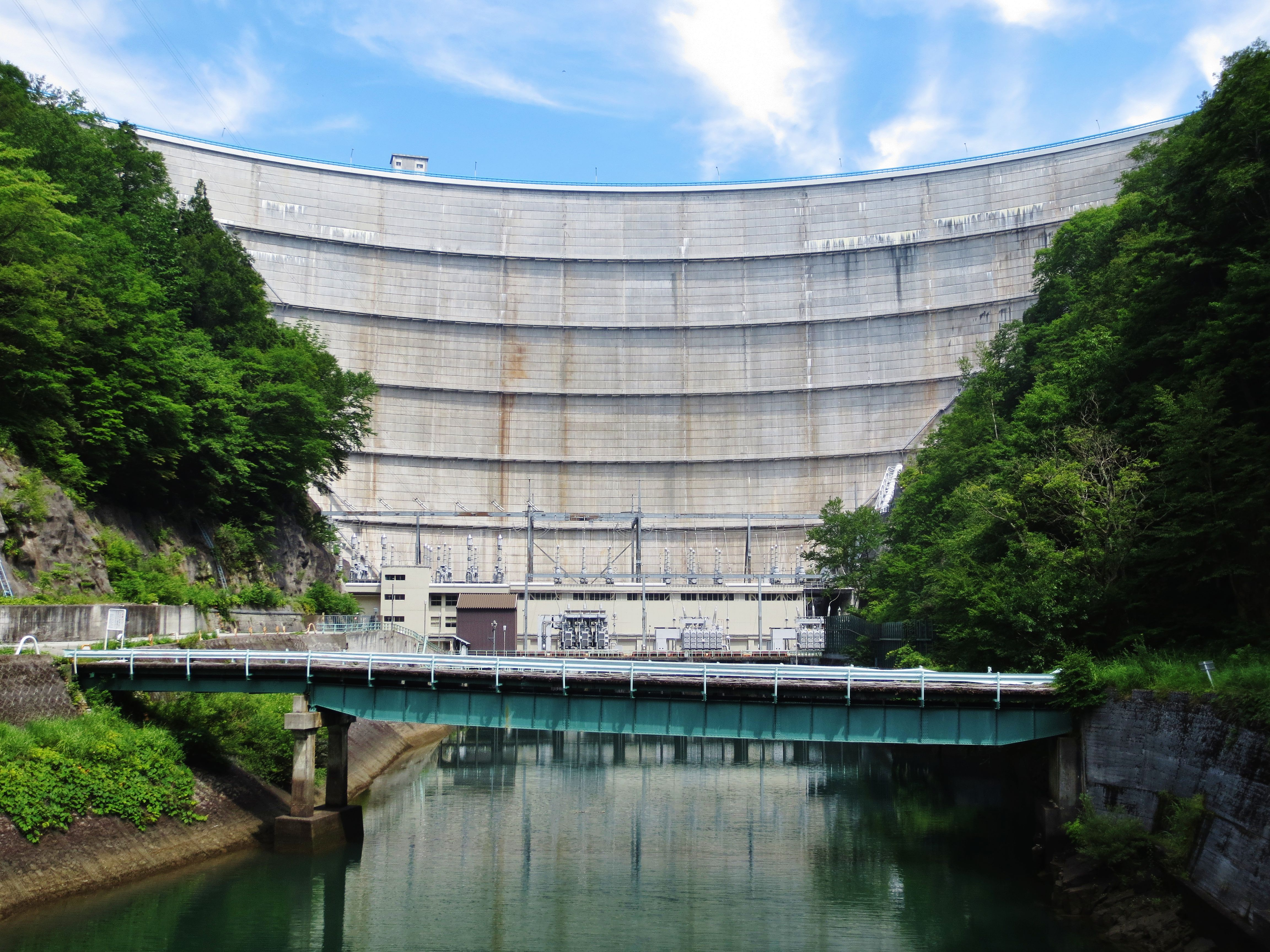 Yagisawa Dam.